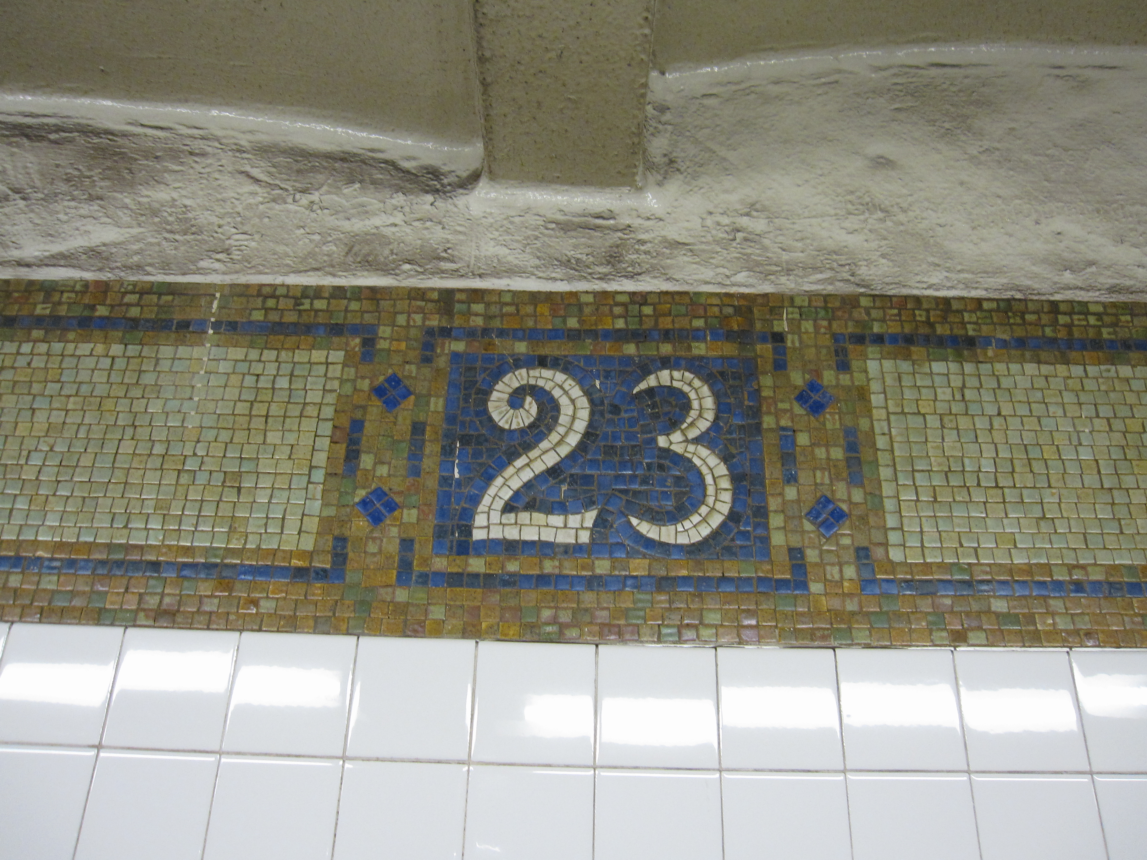 23rd Street (BMT Broadway Line)